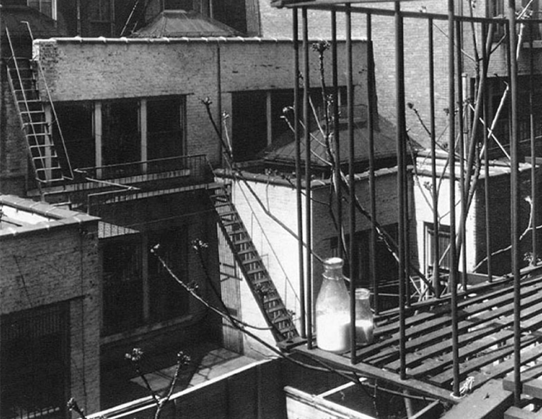 Edward Steichen. Milk bottles on a fire escape, 1915